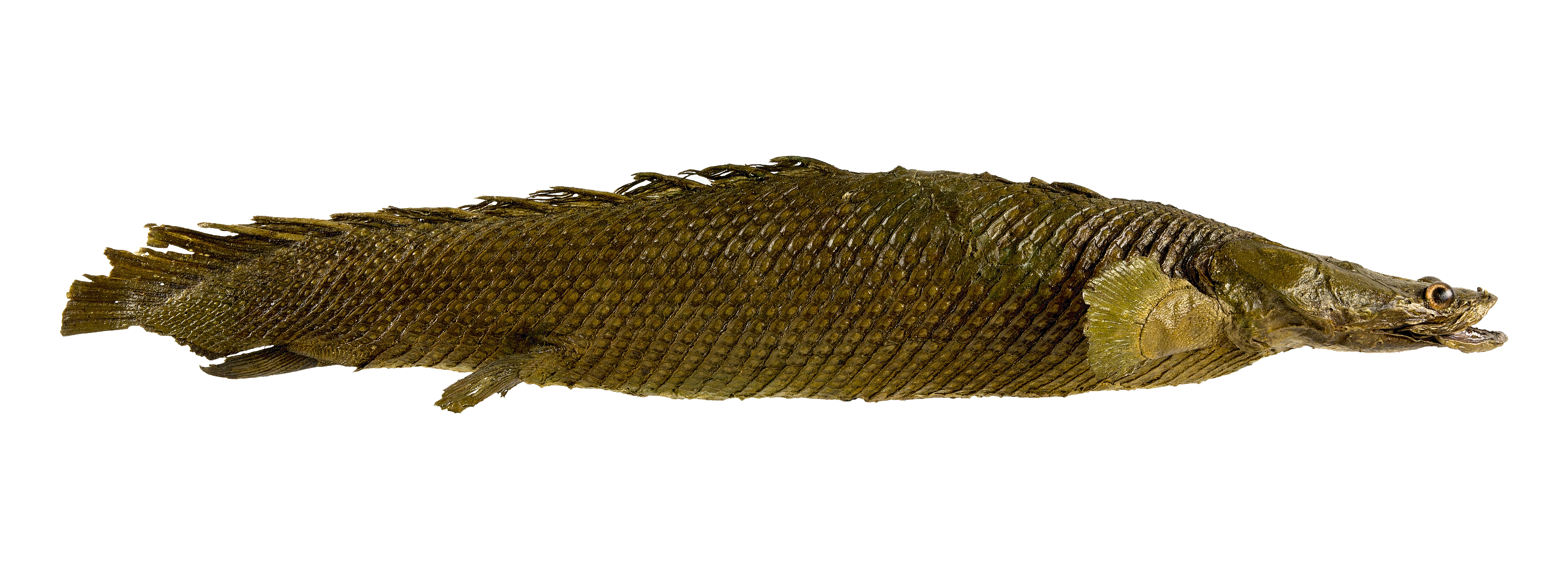 taxidermied specimen, , size : 38 x 10 x 8 cm